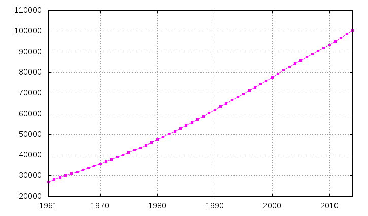 The Philippines' population (1961-2014). Y-axis : Number of inhabitants in thousands.